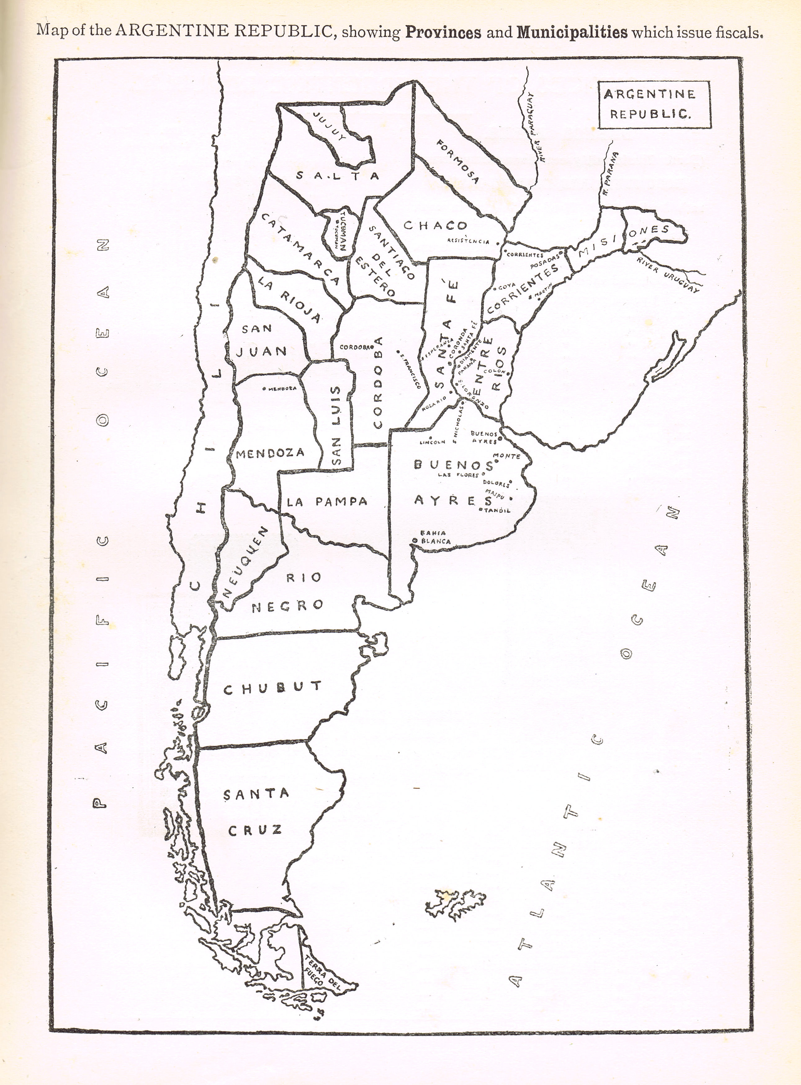 Source: Walter Morley's Catalogue of the Revenue Stamps of South America.